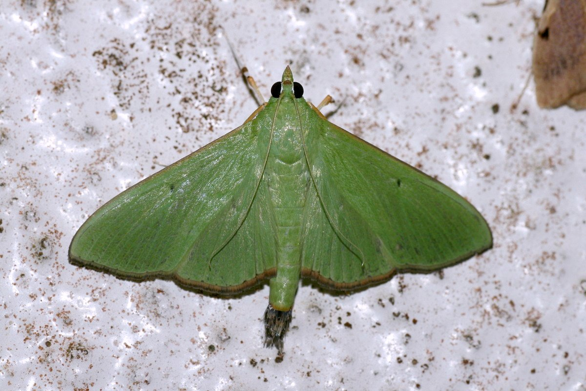 Malaysia, Fraser's Hill. March 2009